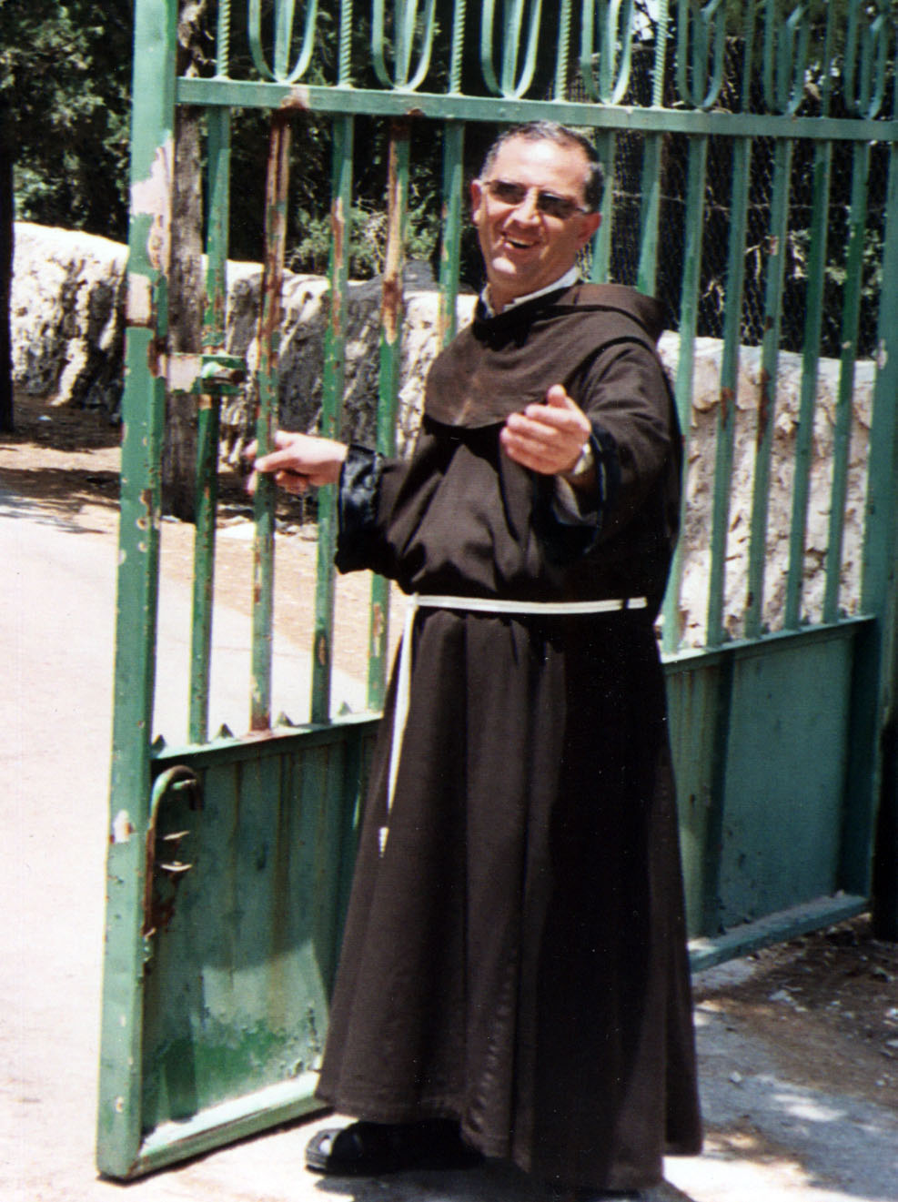 Franciscan monk wearing traditional garb outside the gate of the Church of the Transfiguration on Mt. Tabor in Israel. Taken in 2005 by me, User:Bantosh.